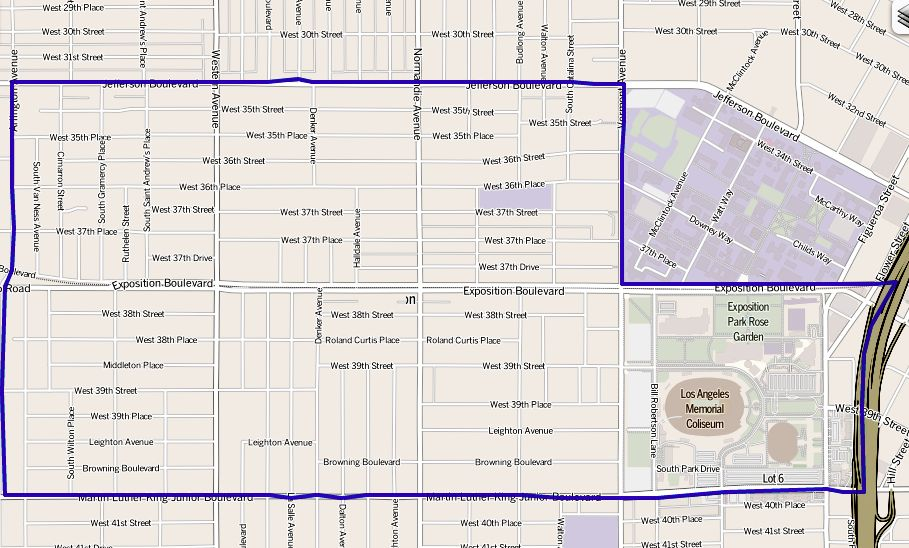 Map of the Exposition Park neighborhood of Los Angeles, California, as limned by the Los Angeles Times. Other information Note at bottom right of map on the L.A. Times website noted above says "CC-by-SA" (which gives permission to use the map). There is a link there to which explains the meaning thereof. The base map is credited to The Times spells all this out at